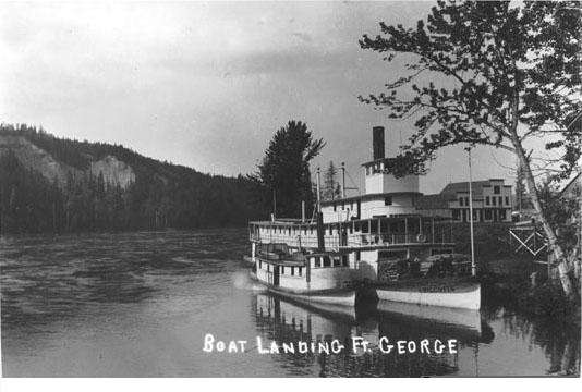 Photographer Unknown Photo taken 1911 Settler's Effects # ???website down number unavailable, will add ASAP[1]